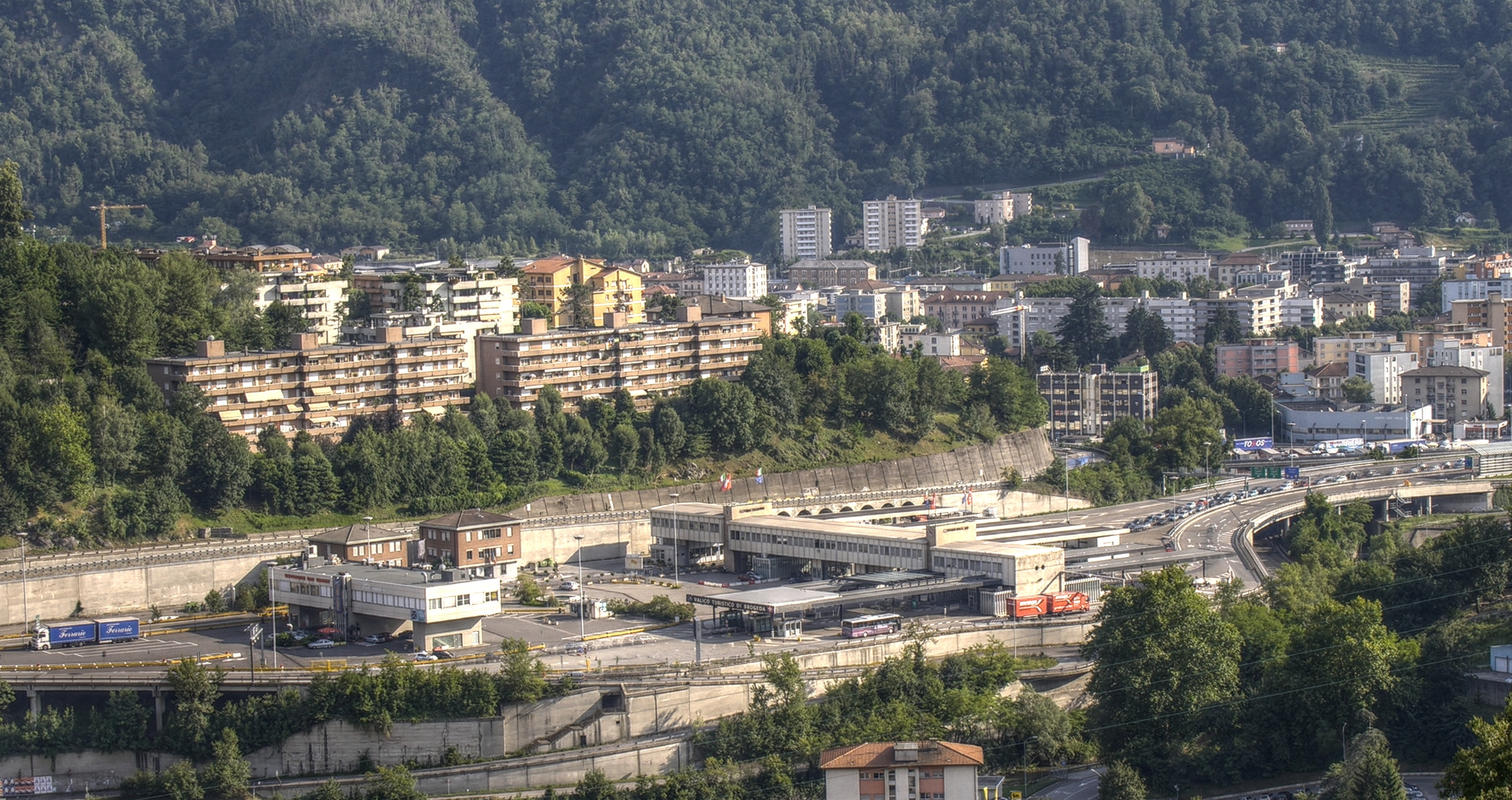 Brogeda custom area on Swiss-Italian border